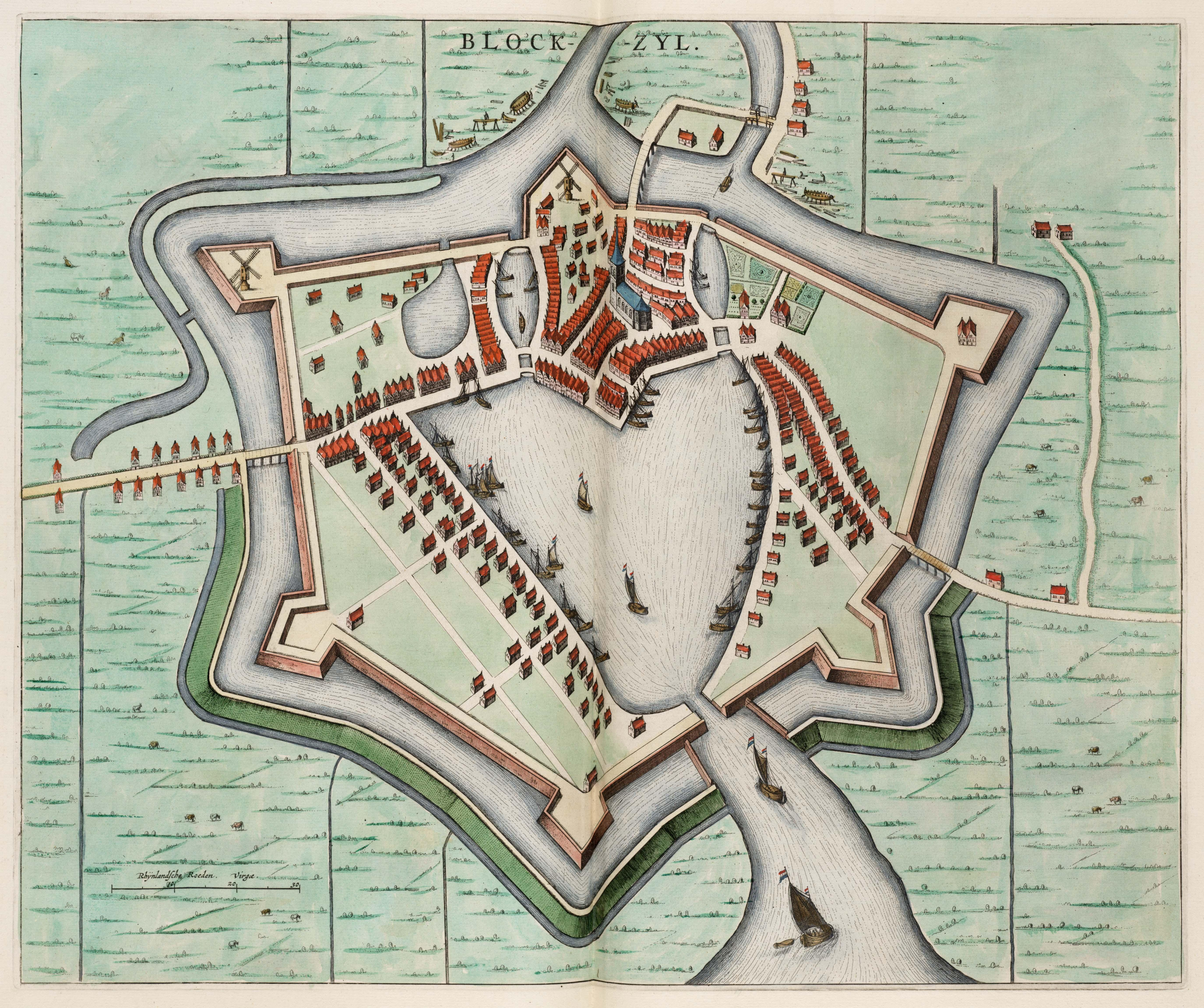 Blokzijl.